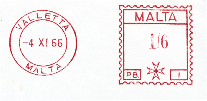 Meter stamp catalog image, Malta type A1